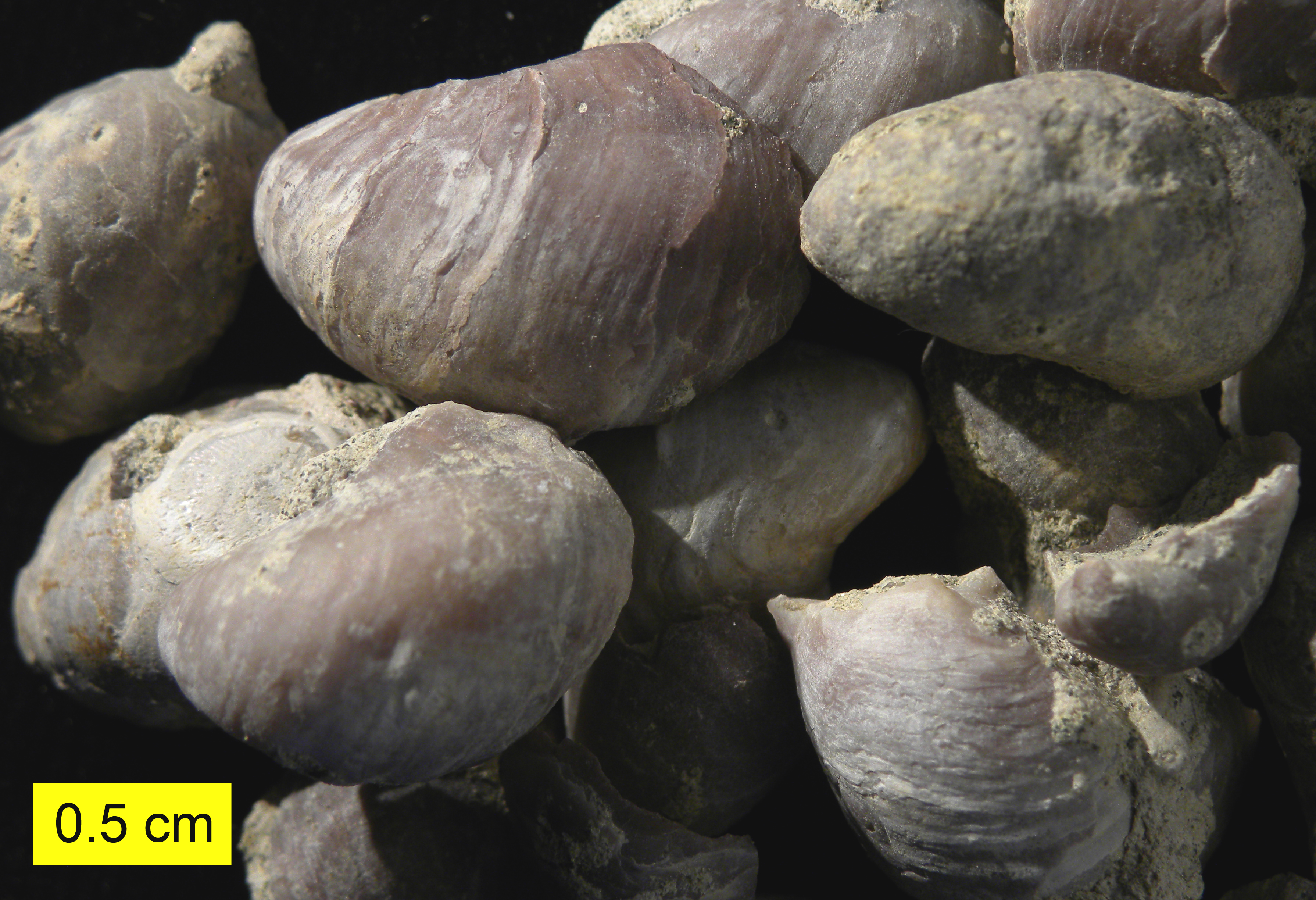 Pycnodonte pulaskiensis from the Clayton Formation (Paleocene) of Mississippi.